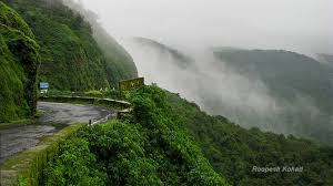 hiranyakeshi 2